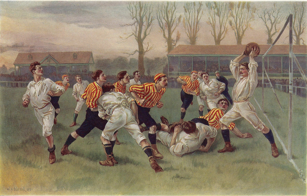 The Football Match, painting.